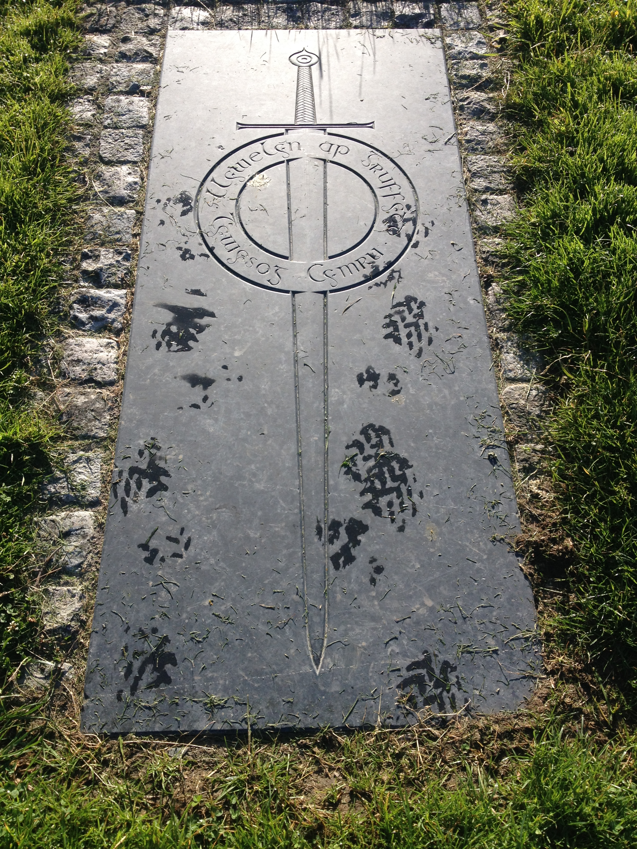 Cwmhir Abbey Wikidata has entry Q143226 with data related to this item.